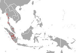 Malayan Tapir (Tapirus indicus) range